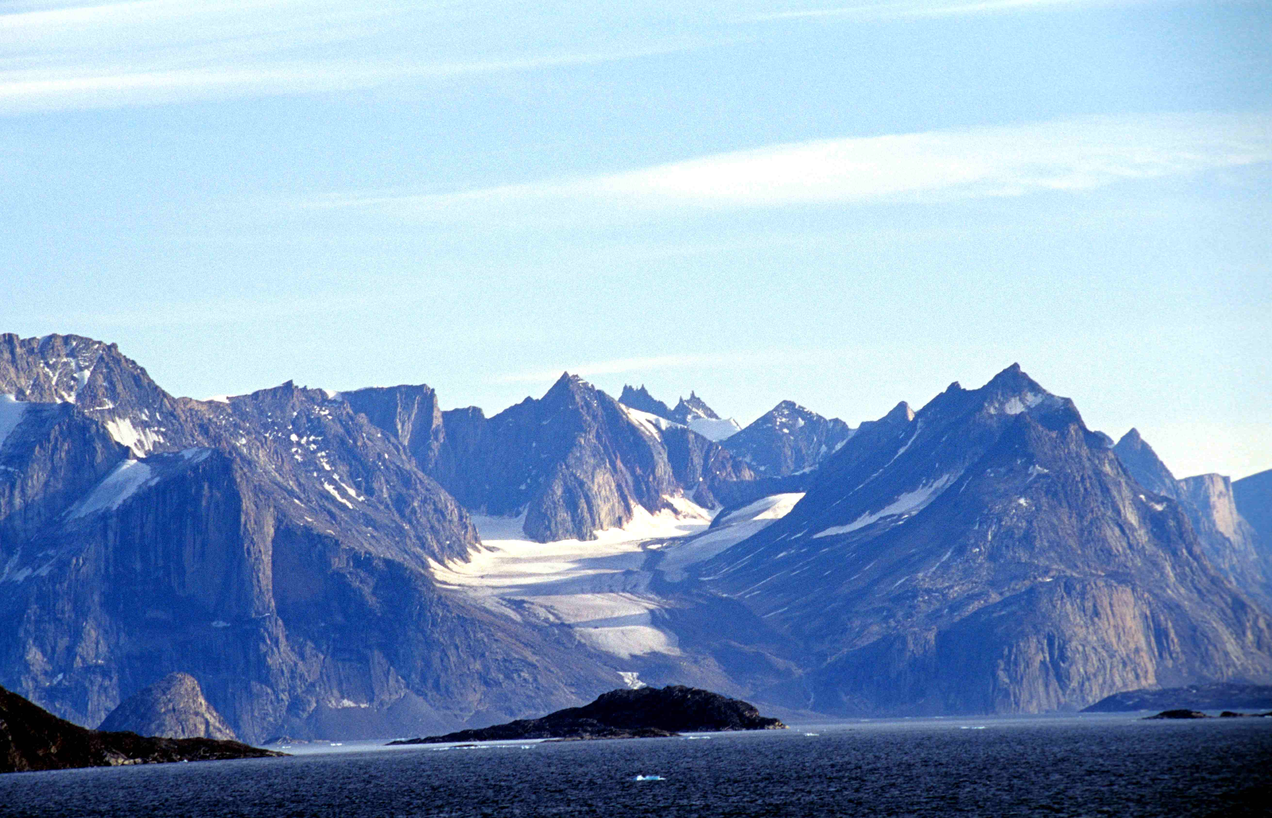 Northern end of Auyuittuq National Park: Nedlukseak Fiord (Davis Strait) and view to the mountains of the park